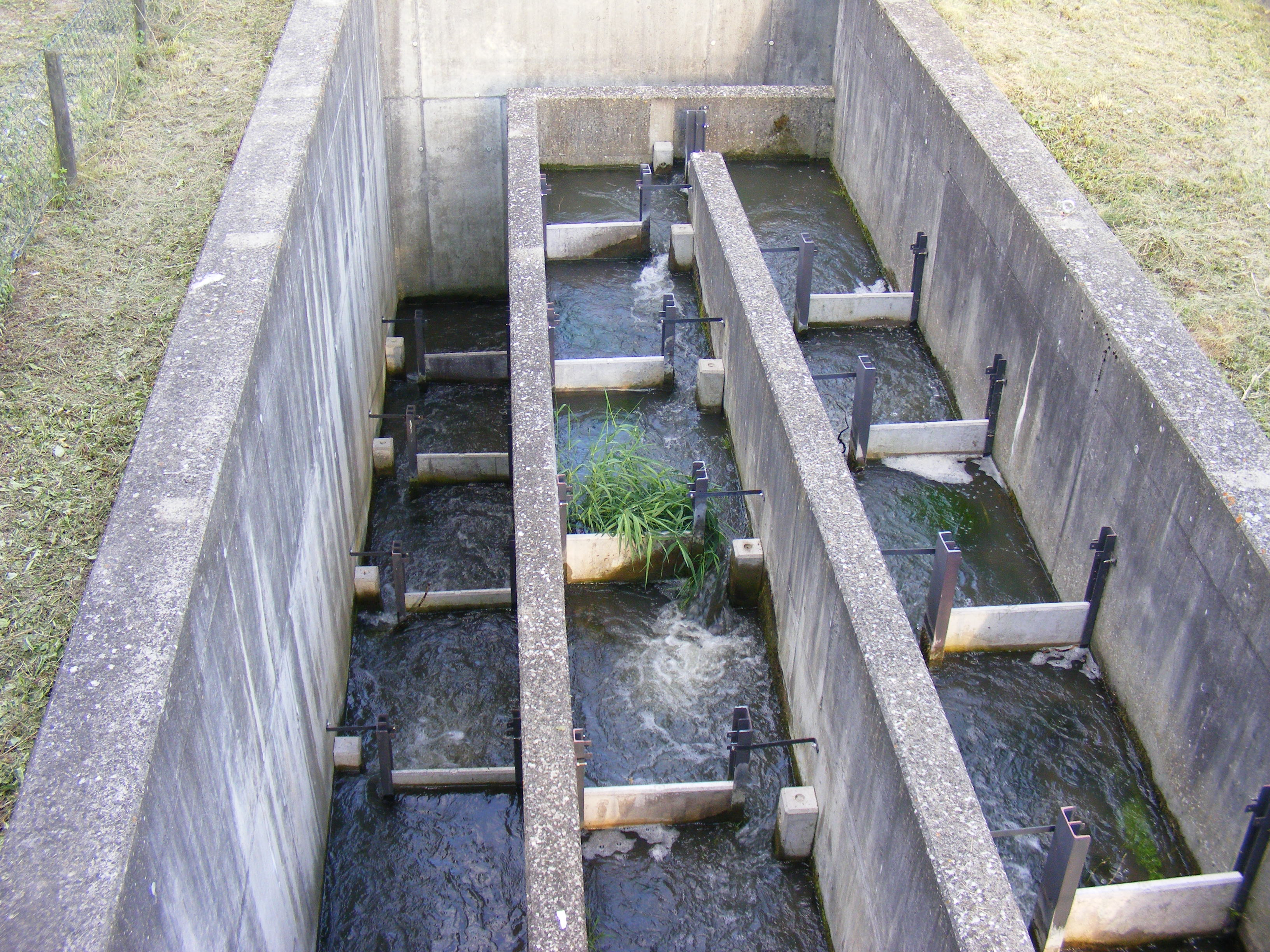 Fish ladder at Tübinger Straße hydroelectric power plant in Rottenburg am Neckar, Germany